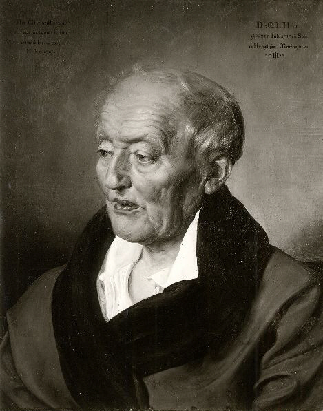 Portrait of Ernst Ludwig Heim, oil on canvas, 54 x 42 cm